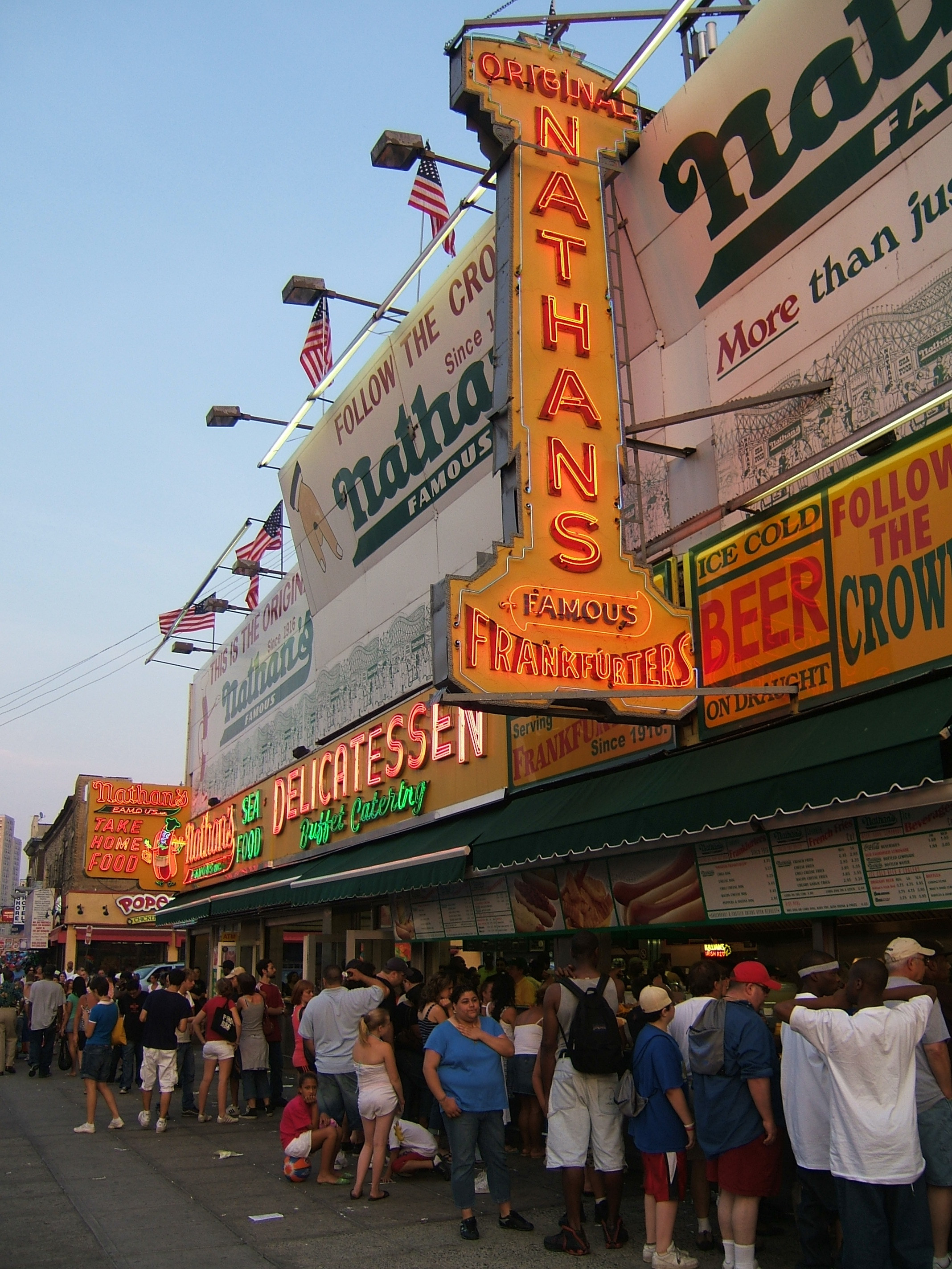 Outside of Nathan's Delicatessen on Coney Island